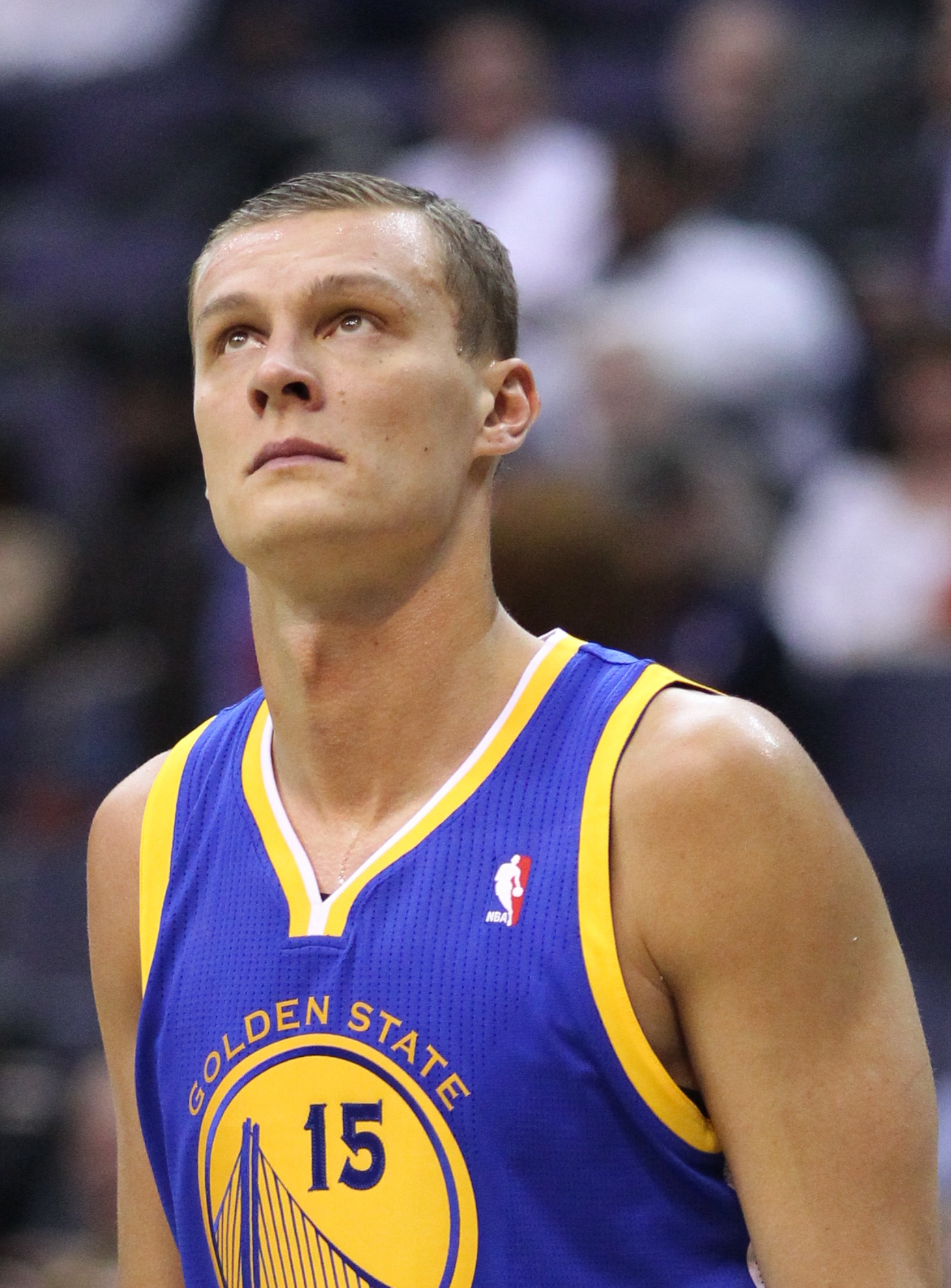 Wizards v/s Warriors 03/02/11